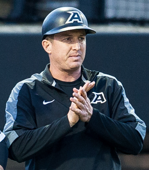 The Army Black Knights baseball team plays a game in West Point, NY in 2014.